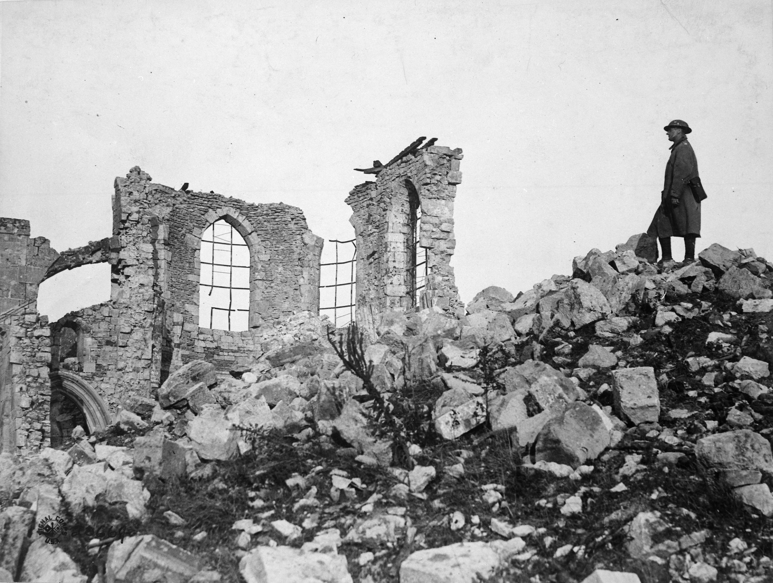 General notes: Use War and Conflict Number 697 when ordering a reproduction or requesting information about this image.